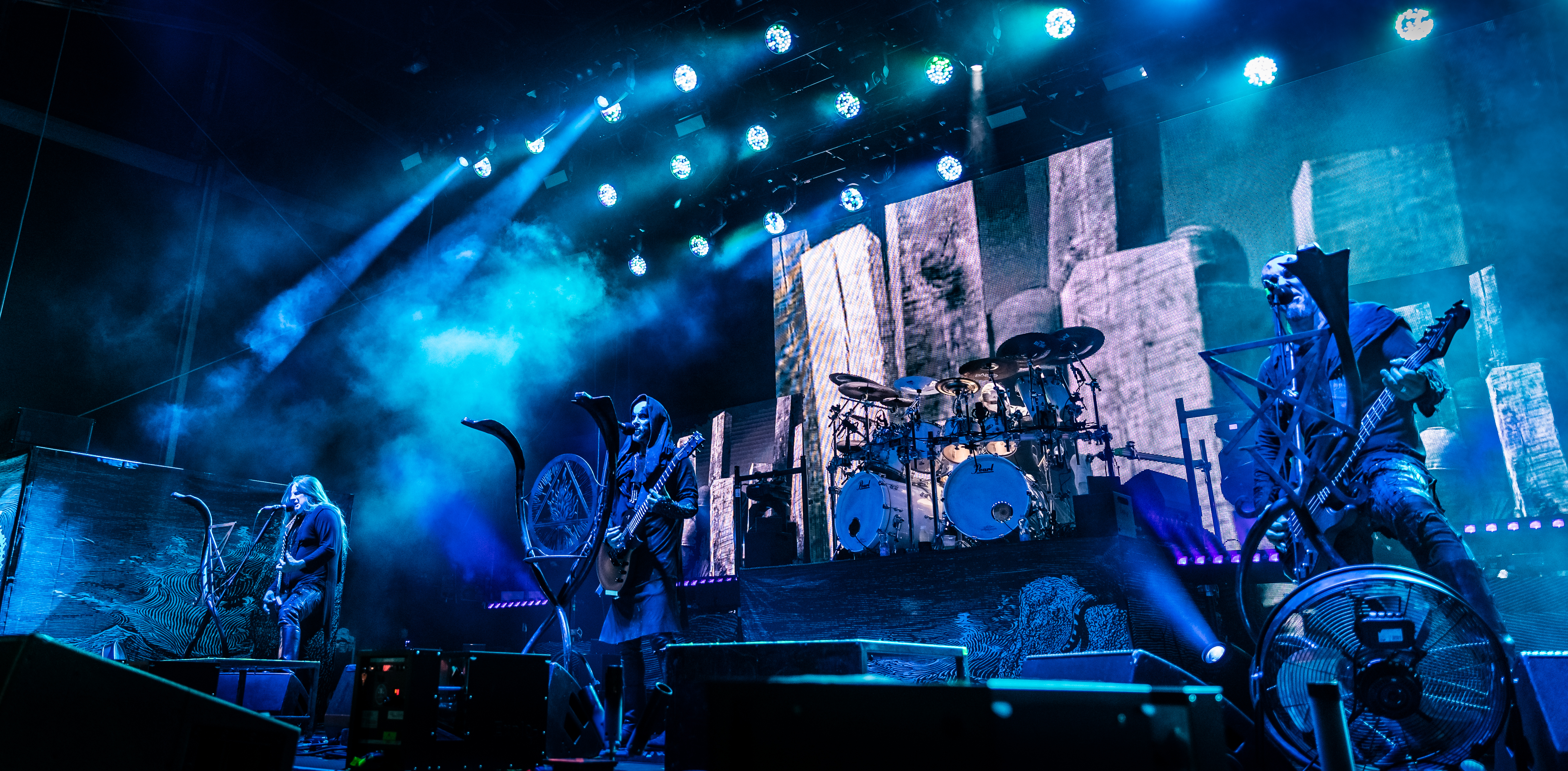 Behemoth - Rock am Ring 2019